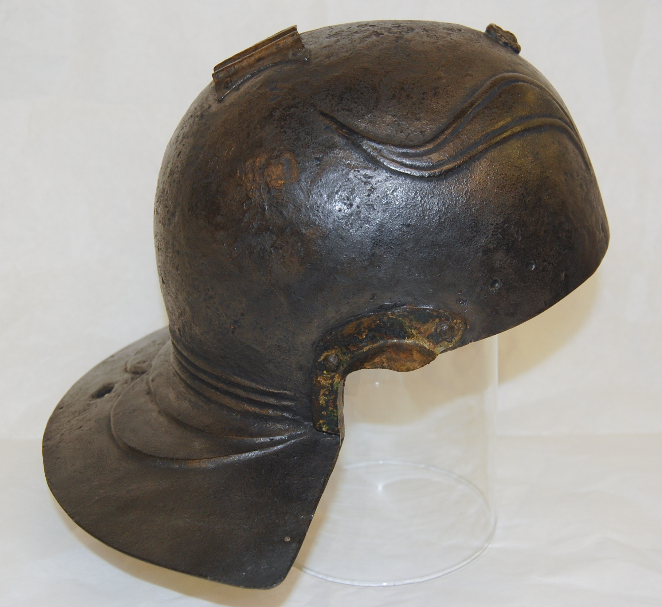 Roman helmet, iron. When it was restored, gilded leather fittings were found on the front